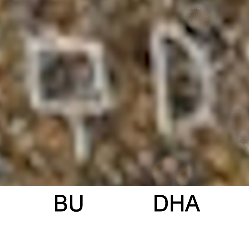 Bhabruh inscription of the Buddha word